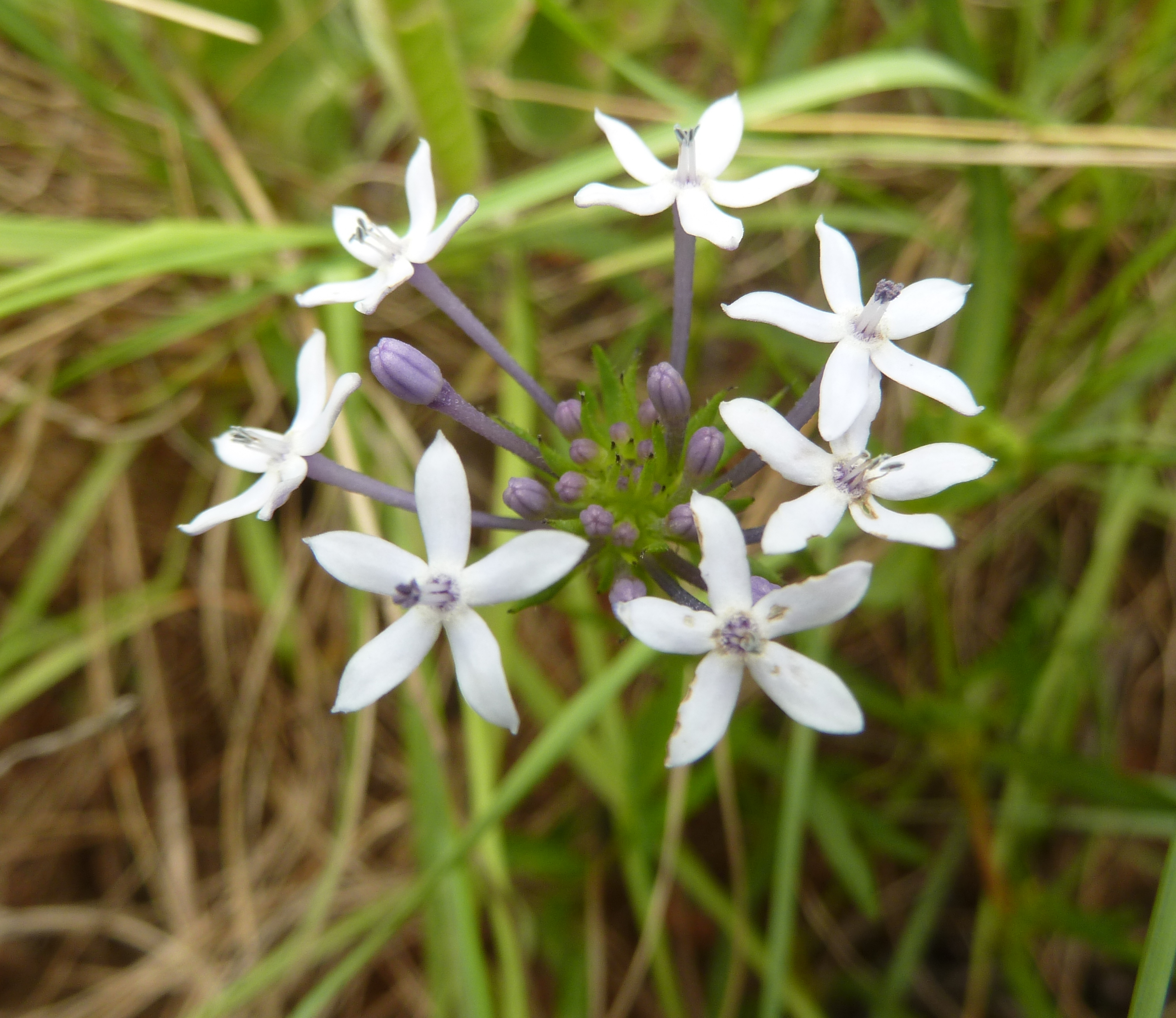 Inflorescence of a Narrow-leaved pentanisia at Dewetsnek in the Magaliesberg, near Skeerpoort, South Africa